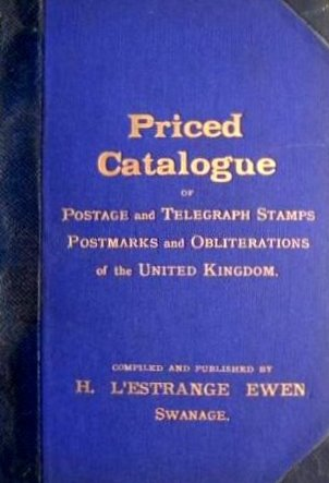 Cover of the Priced Catalogue of Postage and Telegraph Stamps Postmarks and Obliterations of the United Kingdom by H. L'Estrange Ewen, Swanage, 4th edition 1895.